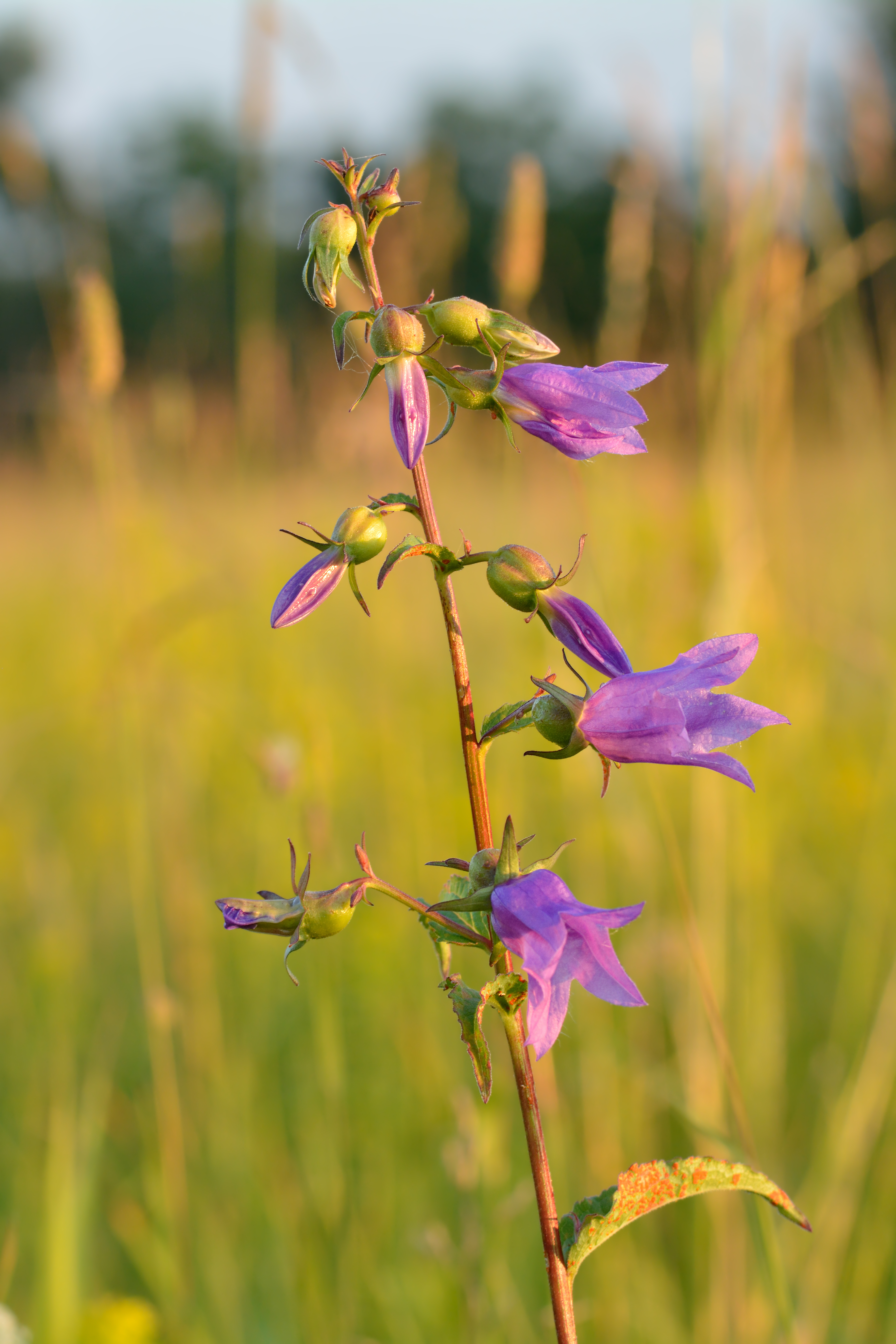 Creeping bellflower (Campanula rapunculoides). Meadow in Humala village.